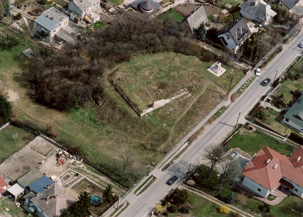 Castle - Érd, Hungary